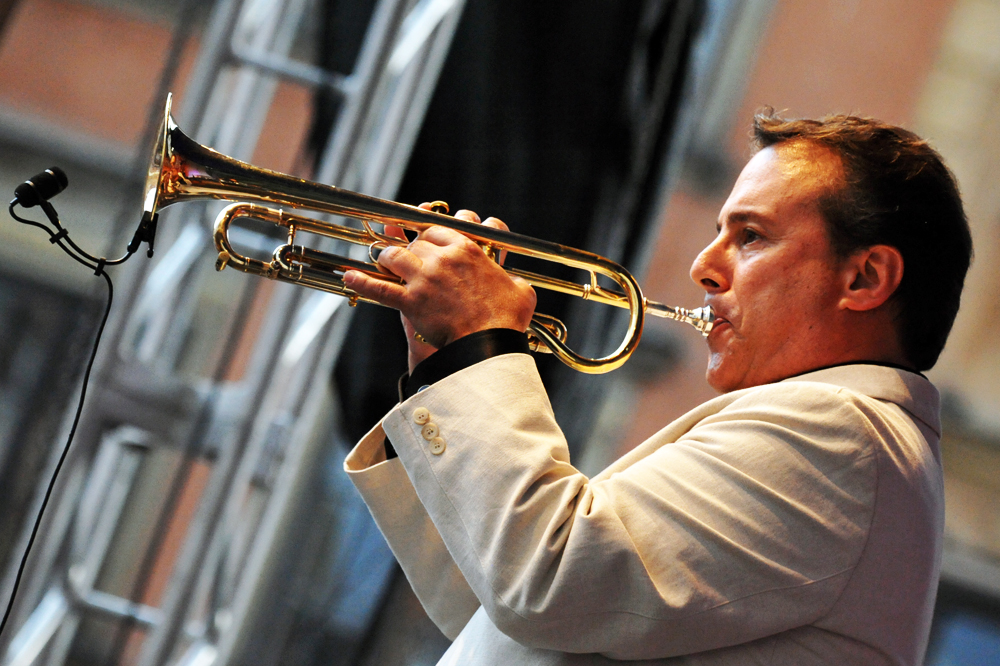 Trumpet player Gary Guthman performing in Warszawa, Poland on August 13, 2011, a concert in the series of Jazz na Starowce (Jazz in The Old Town).